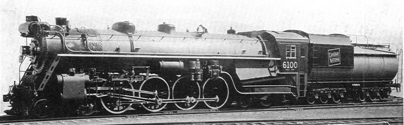 "Confederation" (4-8-4) Type Express Locomotive, Canadian National Railways Photo: Canadian Nat. Rys.